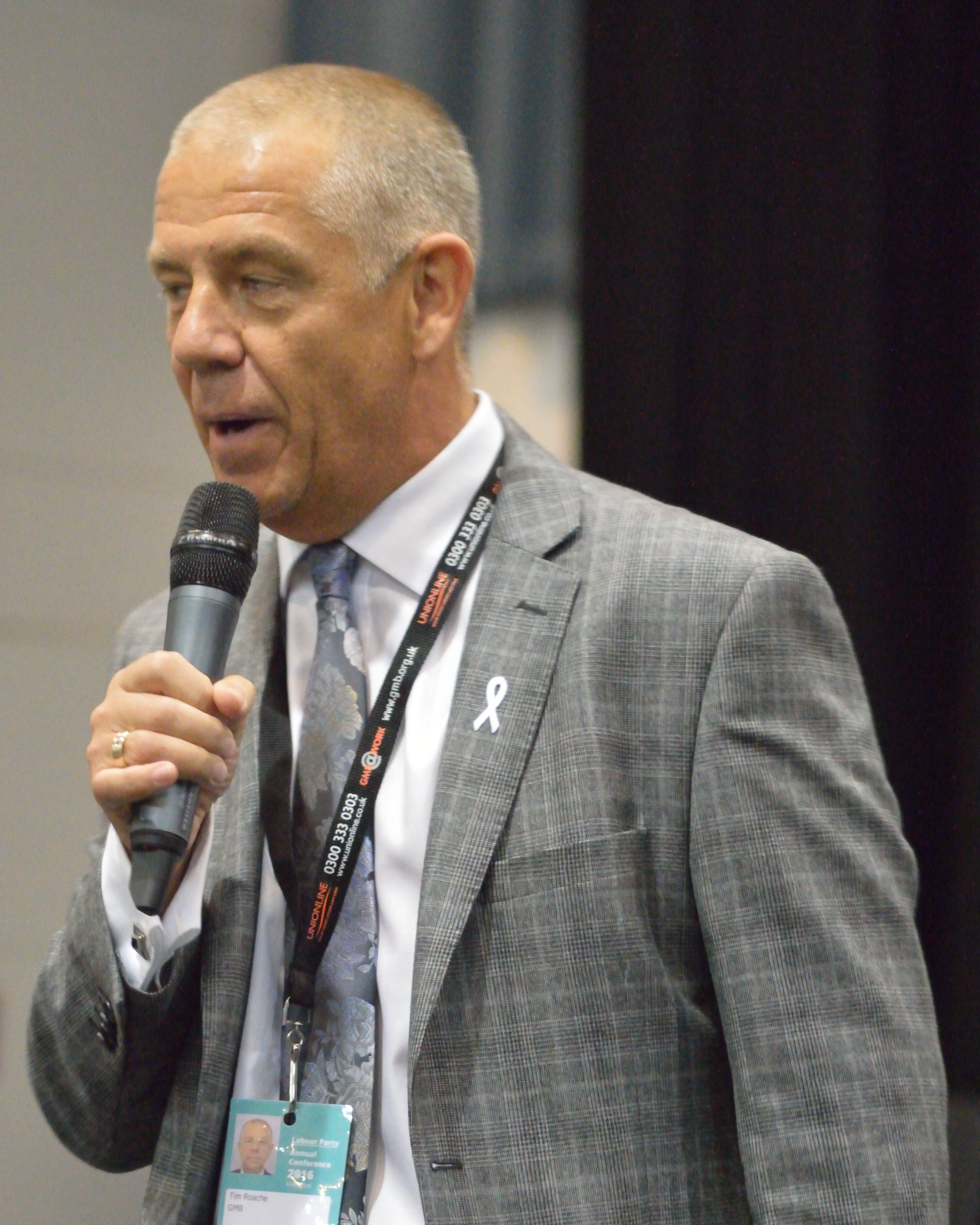 Tim Roache, General Secretary of the GMB, at the 2016 Labour Party Conference in Liverpool, speaking at a fringe meeting organised by Labourlist.